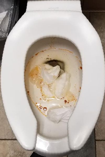 keriorrhea